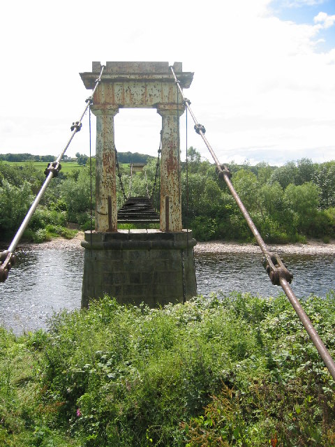 Shakkin' Brig, Cults, Aberdeen Disused bridge over the River Dee. Aka Morison's Bridge - funded by a Reverend Morison so his parishioners could safely cross the Dee.